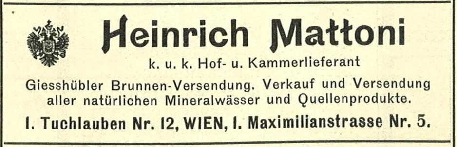 old advertisement of a purveyor to the Imperial and Royal Court of Austria-Hungary.